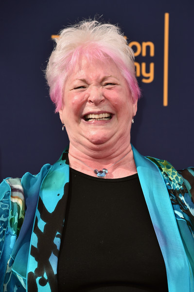 Voice actress Russi Taylor attending the 2018 Creative Arts Emmy Awards at the Microsoft Theater.